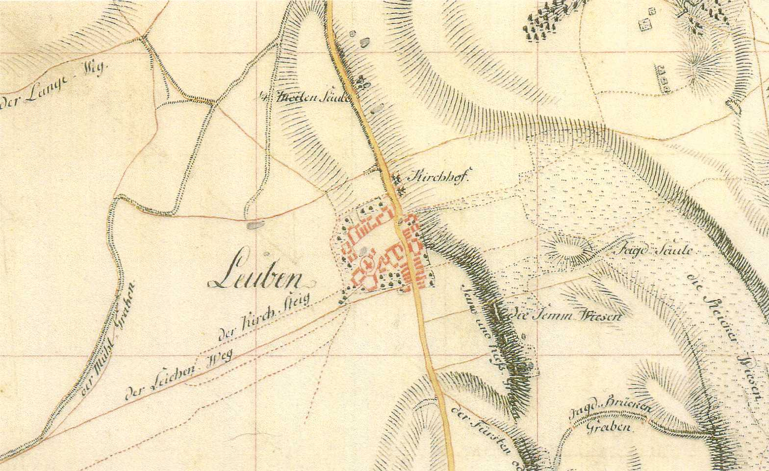 map of Dresden-Leuben, Germany (1784)